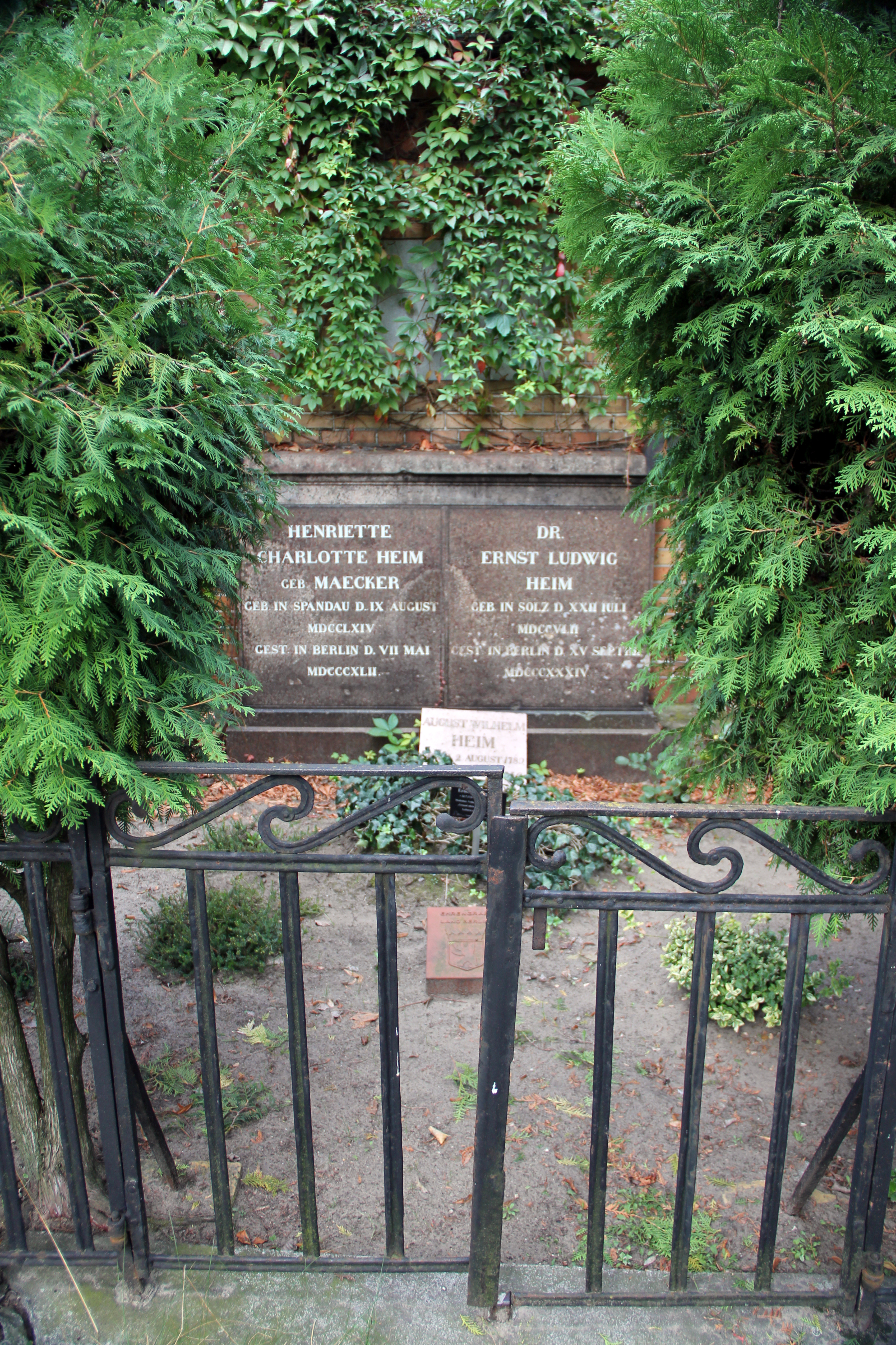 Grave of honor, Ernst Ludwig Heim and Henriette Charlotte Heim, Mehringdamm 21, Berlin-Kreuzberg, Germany